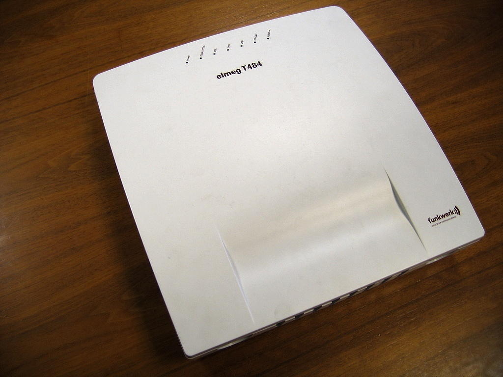 Funkwerk EC elmeg T484 PABX (Private automatic branch exchange)